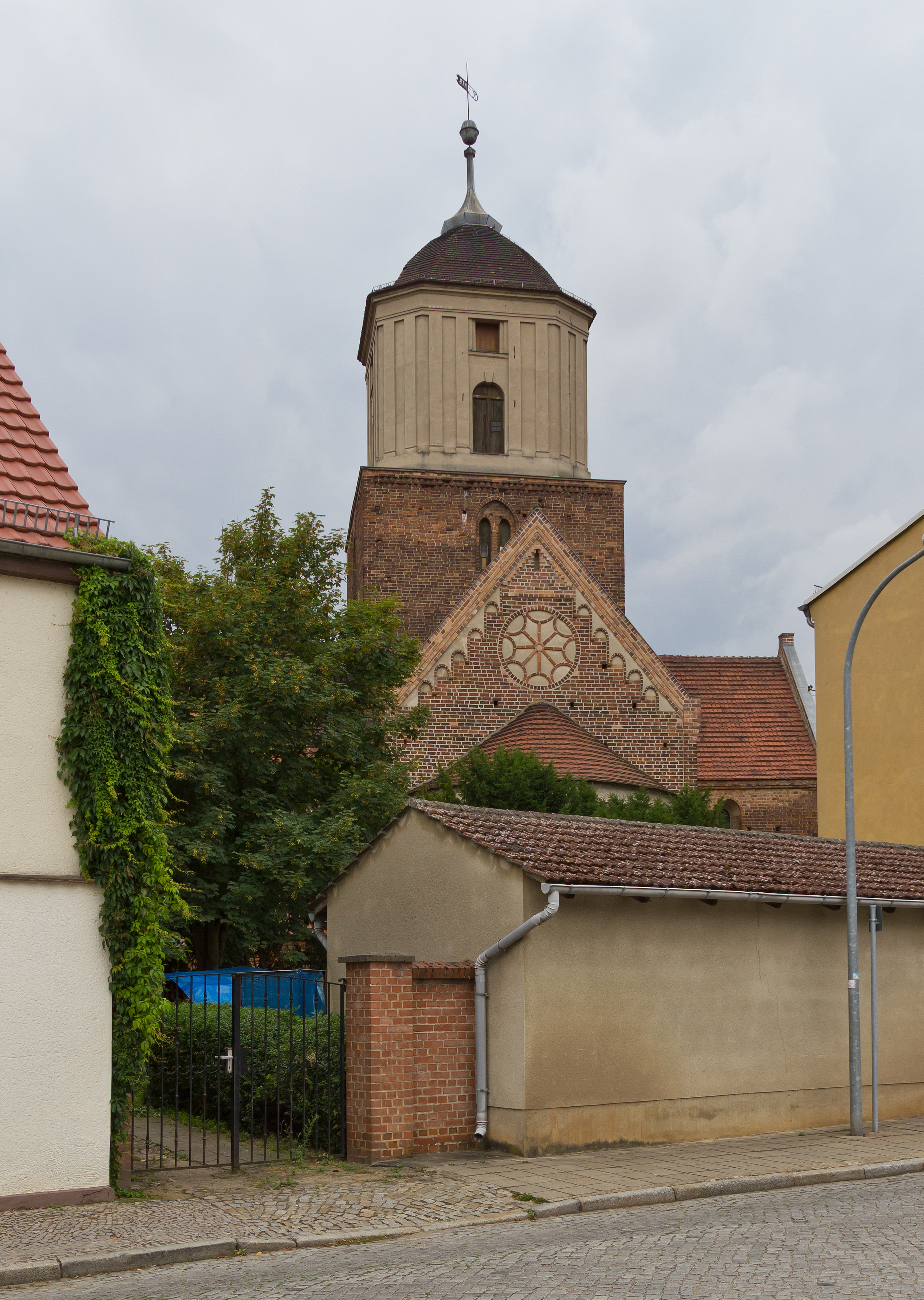 St. Nicholas Church in Treuenbrietzen, Brandenburg, Germany